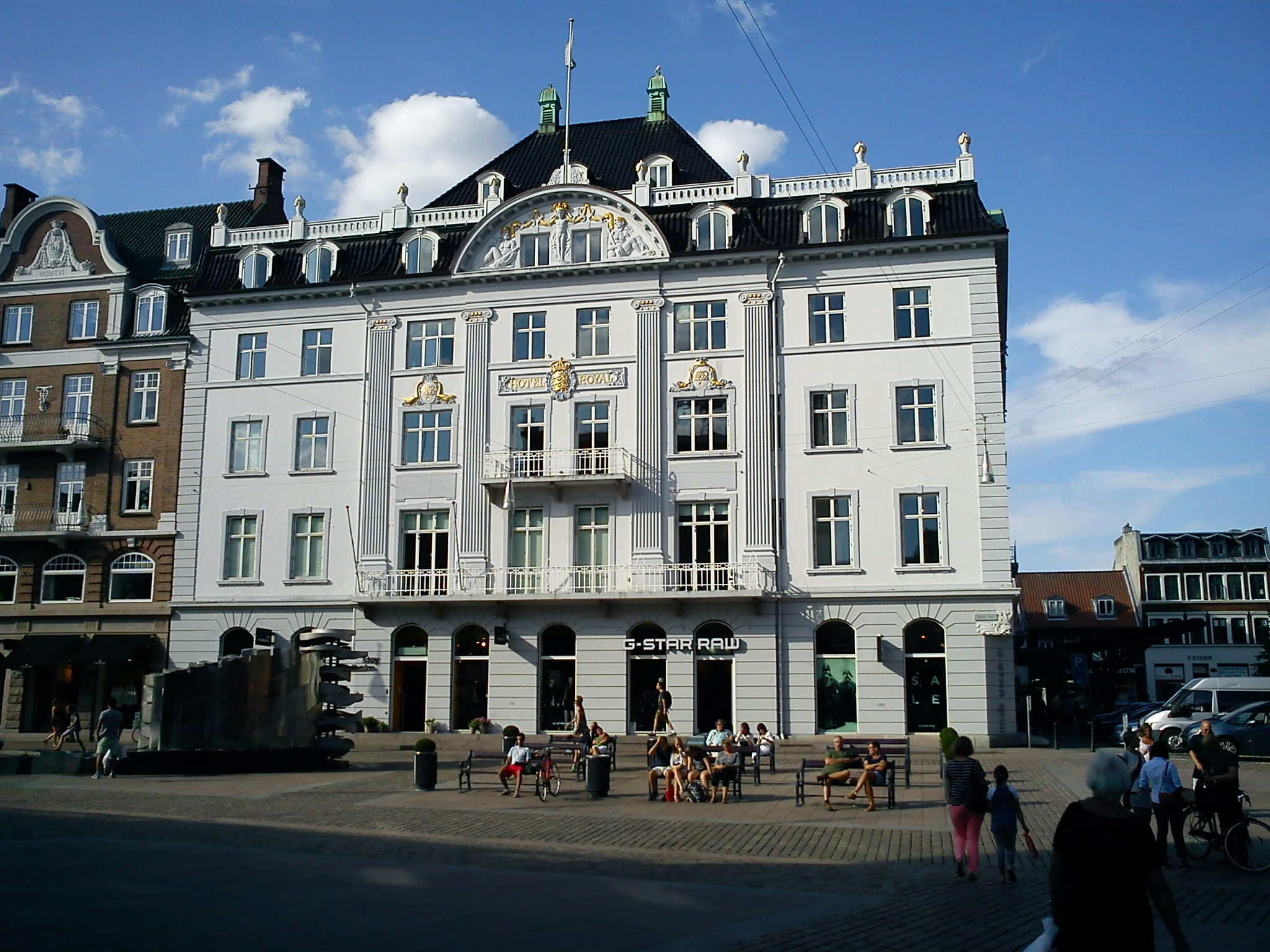 Hotel Royal in Aarhus.